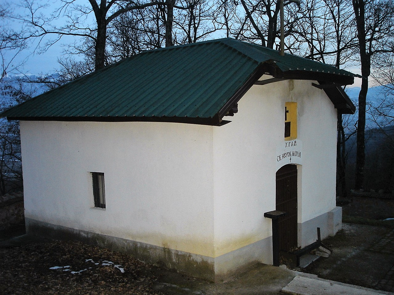 Church of St. Elyah in Požarane, Macedonia